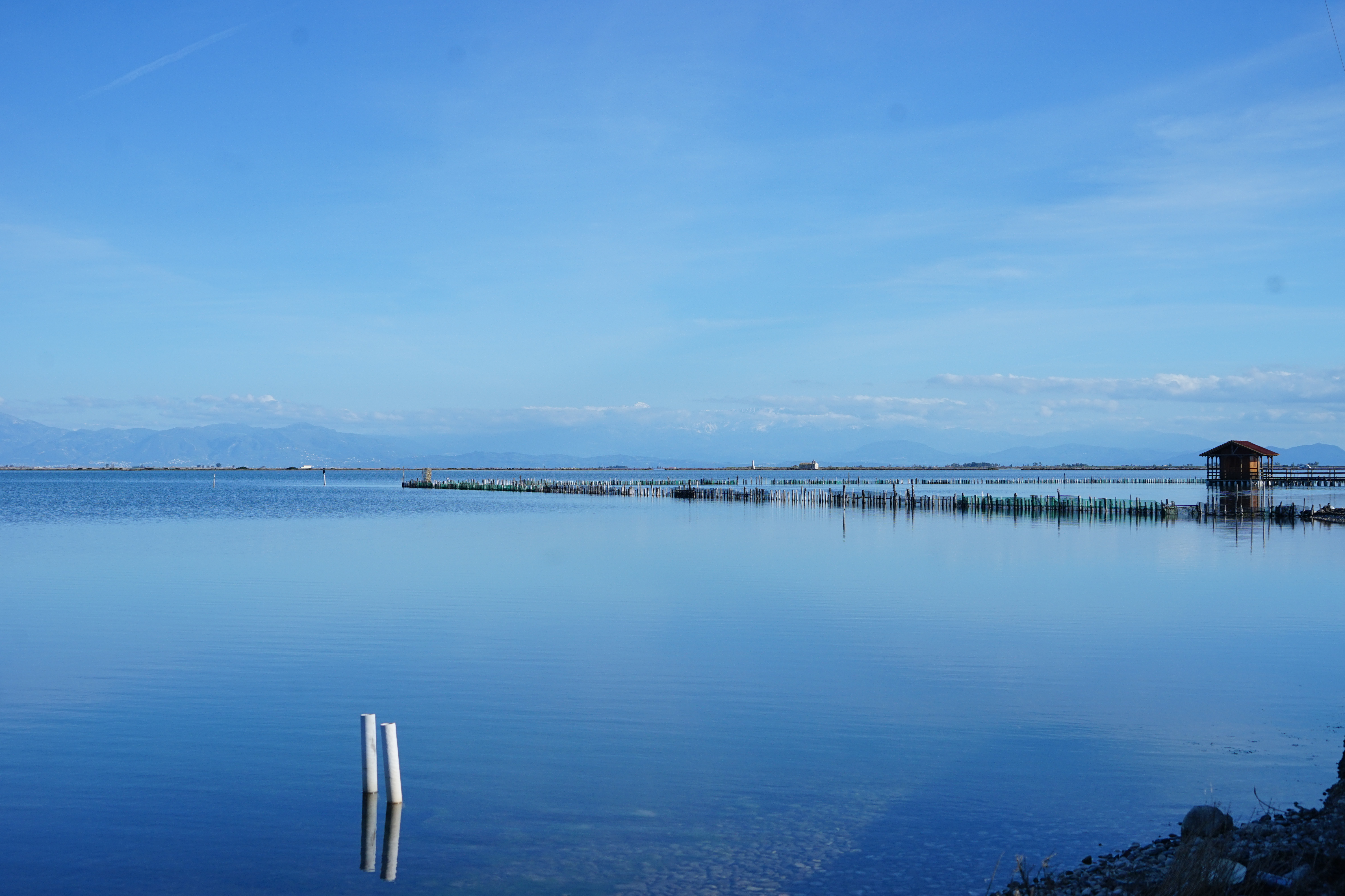 This is a photography of Natura 2000 protected area with ID GR2310015